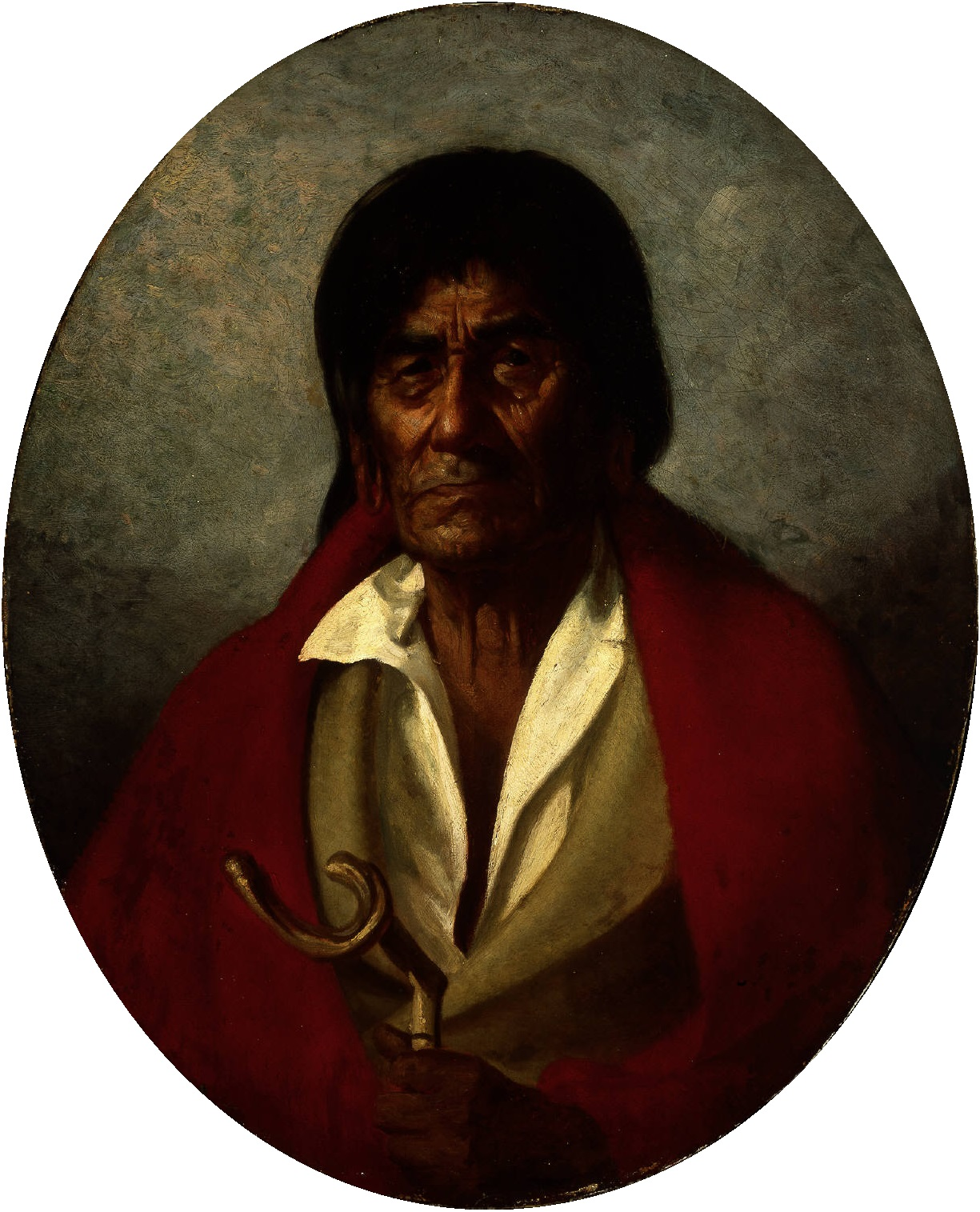 Conjockety, Seneca Indian Aged 105